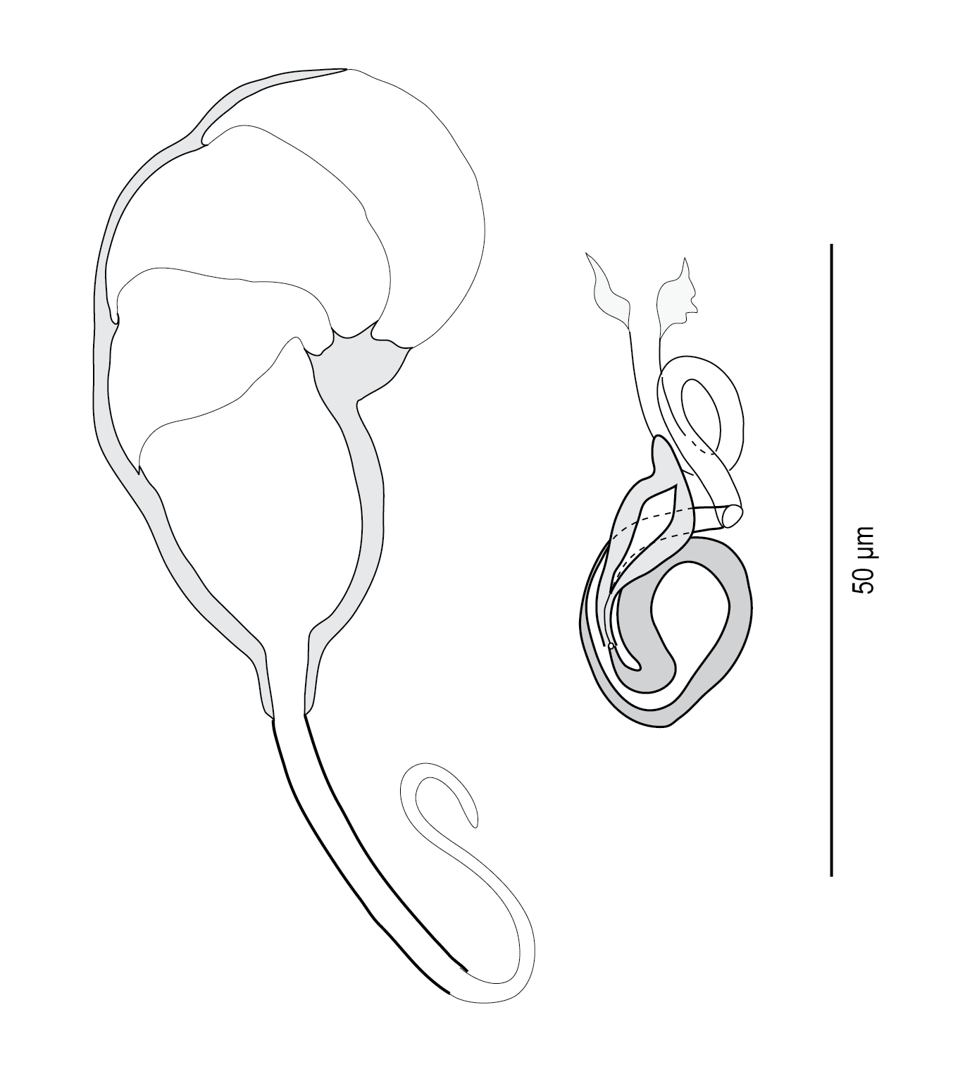 Pseudorhabdosynochus epinepheli (Monogenea, Diplectanidae) from Epinephelus chlorostigma off New Caledonia - sclerotized copulatory organs (left, male, dorsal view; right, female, ventral view). Original drawing, similar to Figures 6B and 6D published in: Justine, Jean-Lou, 2009: A redescription of Pseudorhabdosynochus epinepheli (Yamaguti, 1938), the type-species of Pseudorhabdosynochus Yamaguti, 1958 (Monogenea: Diplectanidae), and the description of P. satyui n. sp. from Epinephelus akaara off Japan. Systematic Parasitology, 72, 27-55.